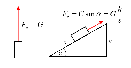 Mechanical advantage of inclined plane (G is weight)